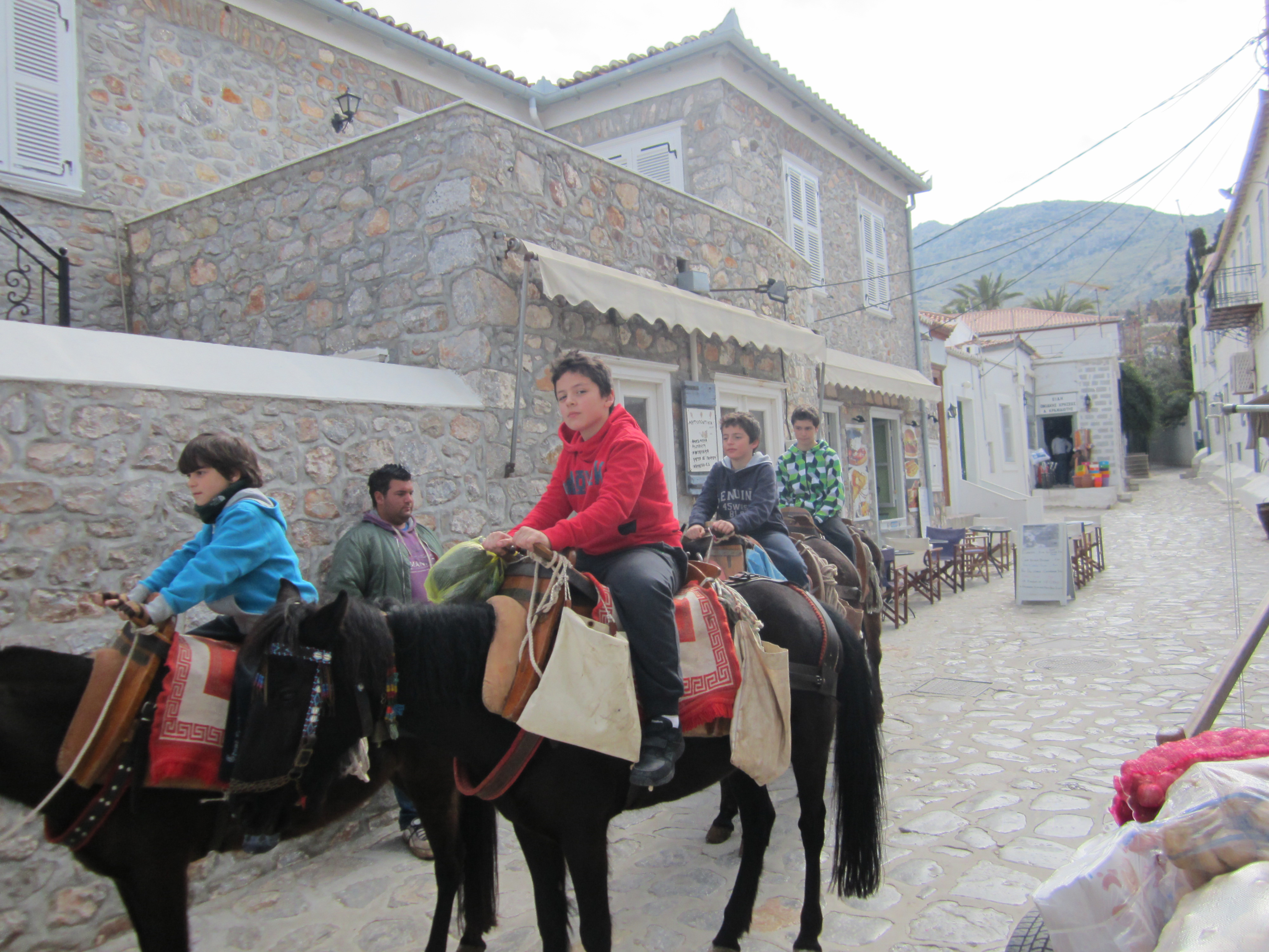 Transport on island of Hydra